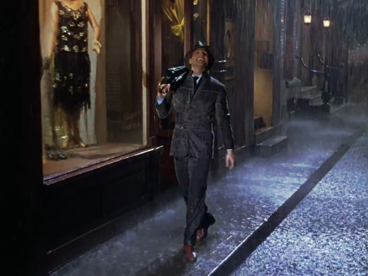 Gene Kelly performing the song in the 1952 film Singin' in the Rain.